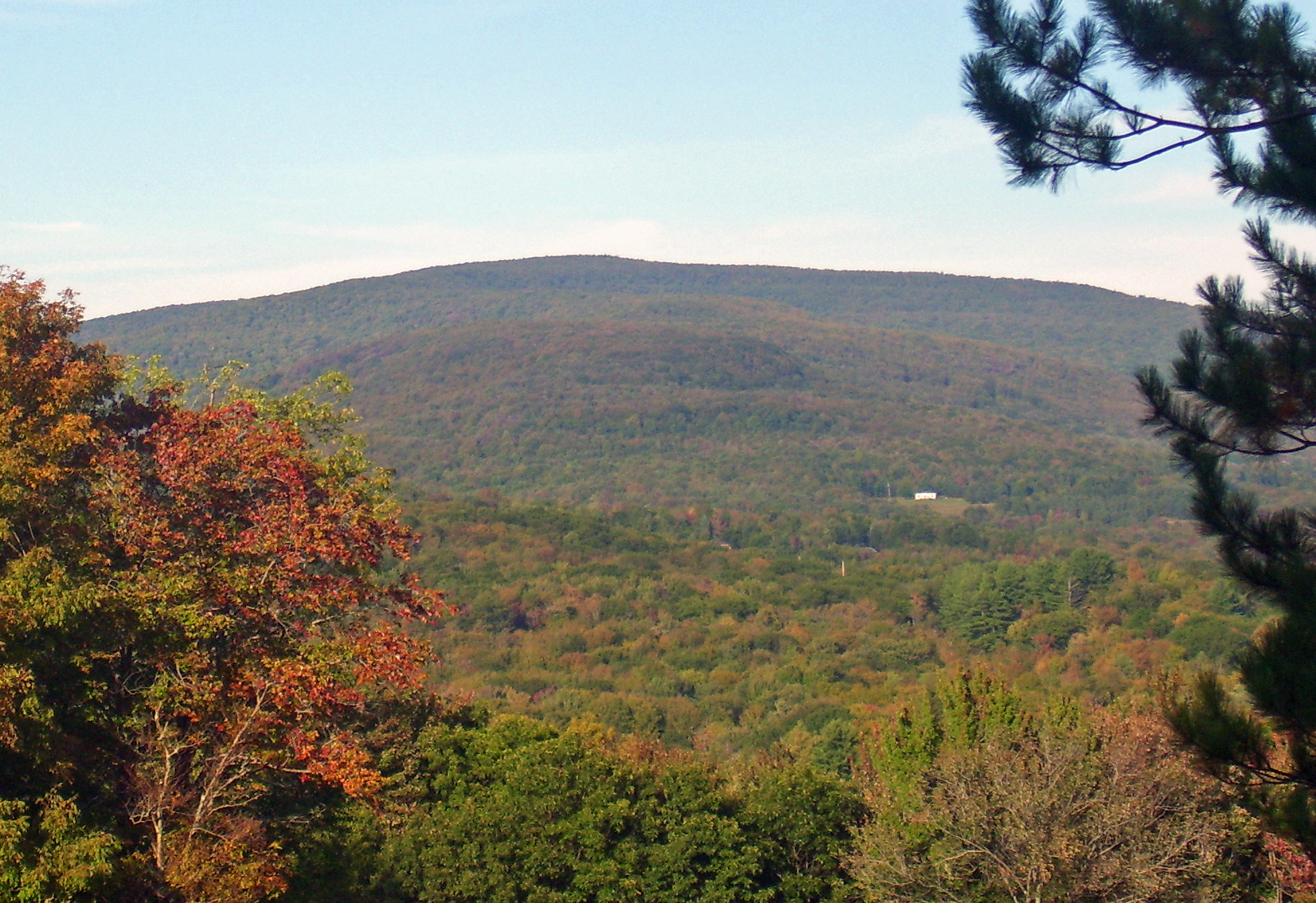 Halcott Mountain, one of the Catskill High Peaks, seen from the lower slopes of Bellayre Ski Center, in Shandaken, NY, USA